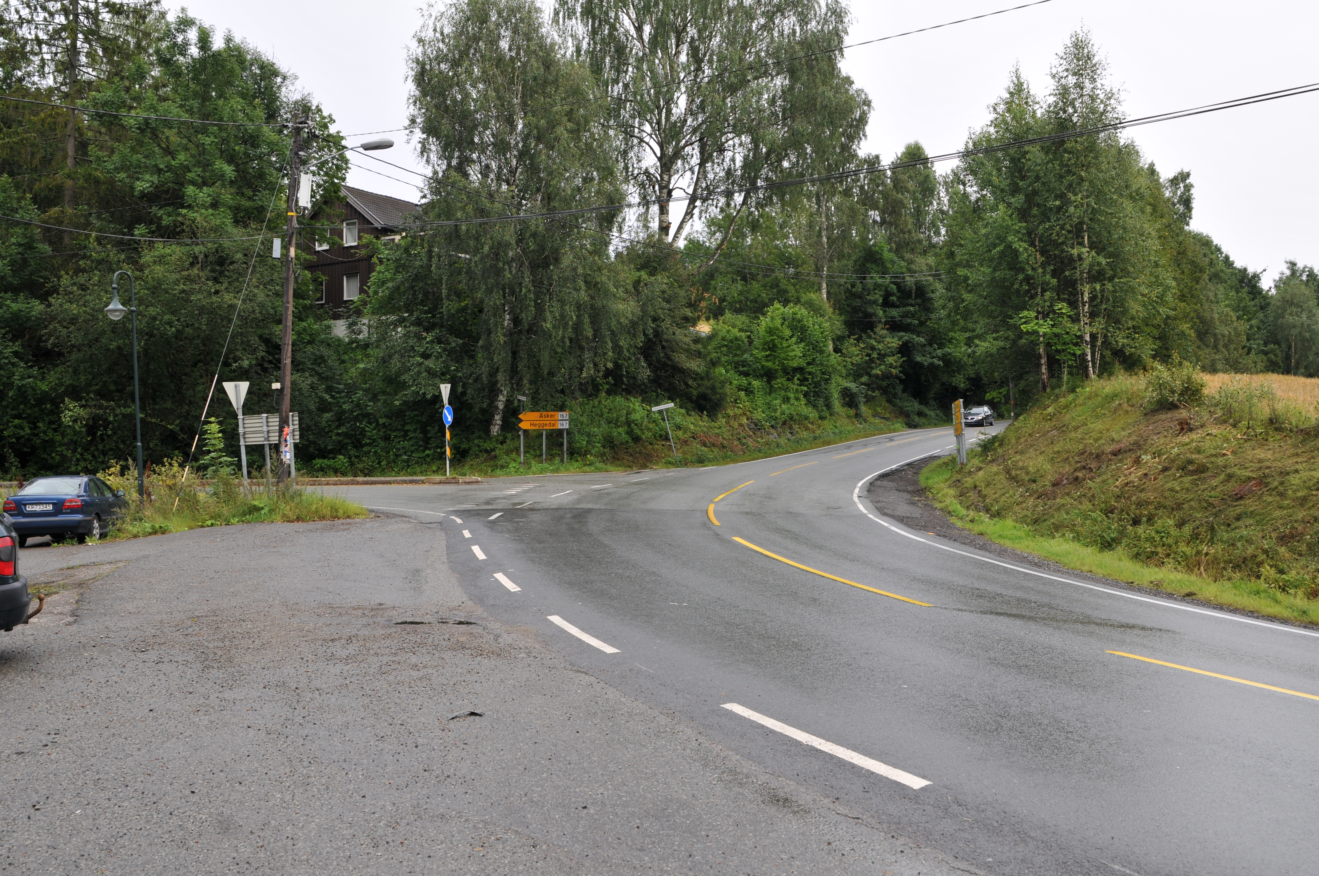 Slemmestadveien Fv165 at the intersection of Røykenveien Fv167 in Røyken, Buskerud, Norway. The view is from Midtbygda towards Bødalen with Røykenveien to the left.